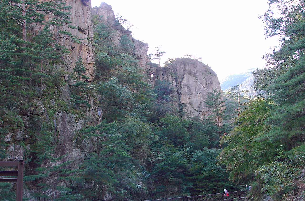 Odaesan National Park, located in the province of Gangwon South Korea was designated as a national park in 1975, is named after the 1,563-meter Odae mountain. The name "Odaesan" means "mountain of five plateaus", which refers to the five plateaus found between its five peaks.